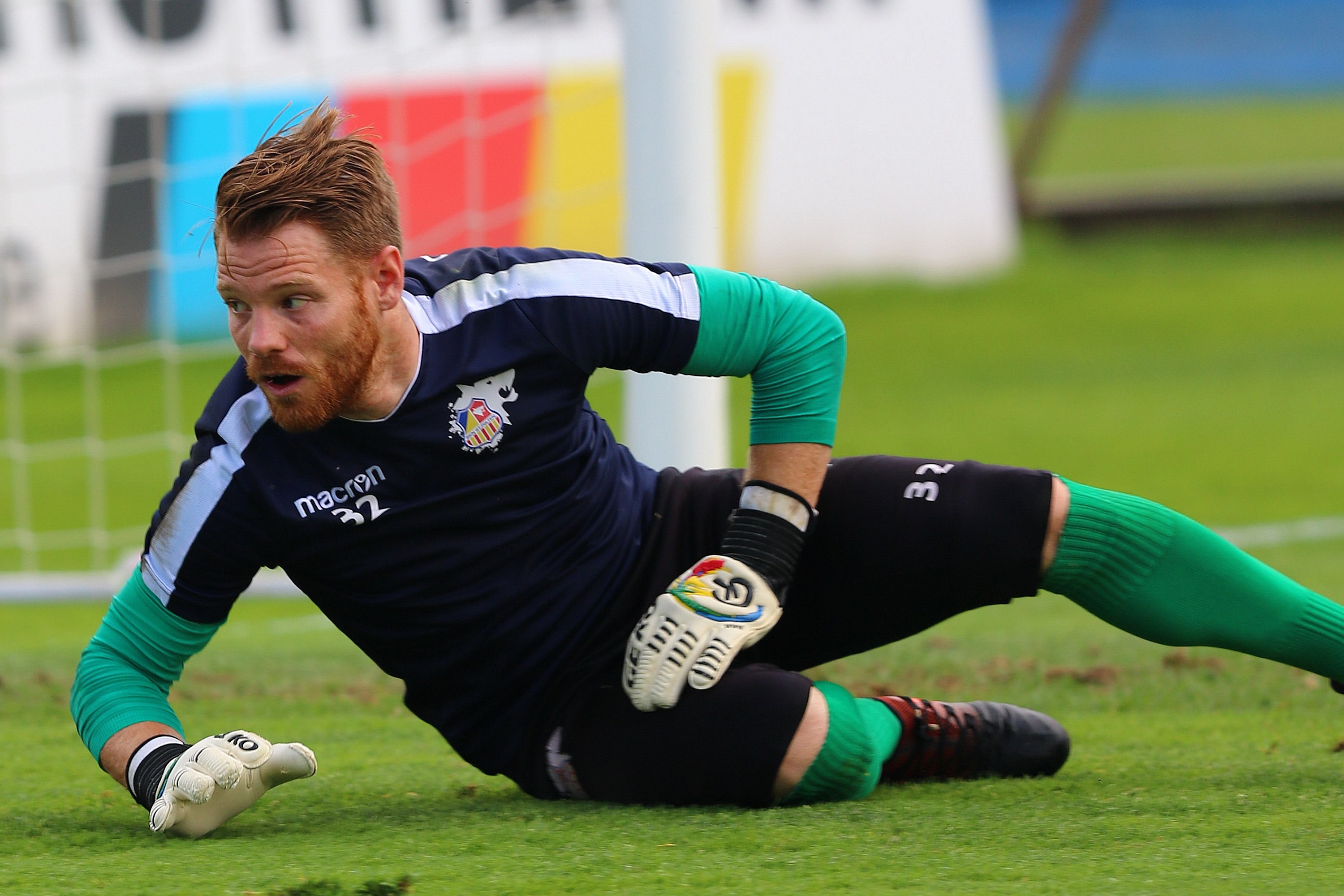 Football qualification match for the Austrian Bundesliga - SC Wiener Neustadt (white shirts) vs. SK St. Pölten (red shirts) 0-2. – The photo shows the goalkeeper of SKN St. Pölten Thomas Vollnhofer.